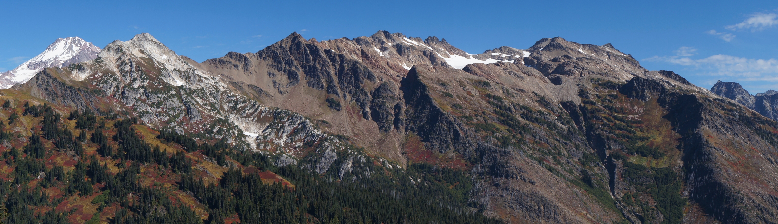 Southern aspect of Kololo Peaks seen from Pacific Crest Trail in Glacier Peak Wilderness of WA state